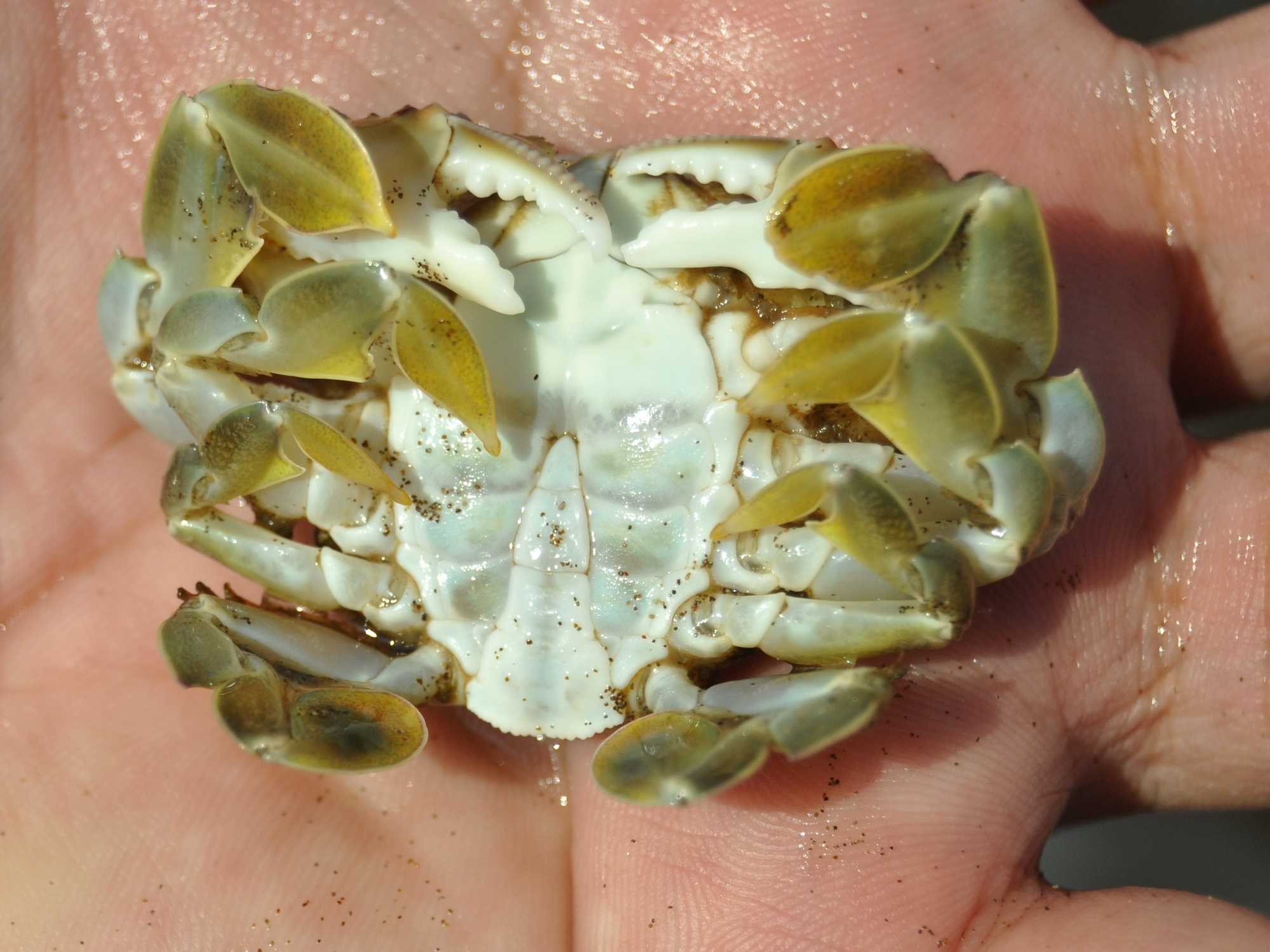 Moon crabs, Matuta victor, male 29mm CW (carapace width, without lateral spines); from Cilacap southern coast of Central Java, Indonesia.